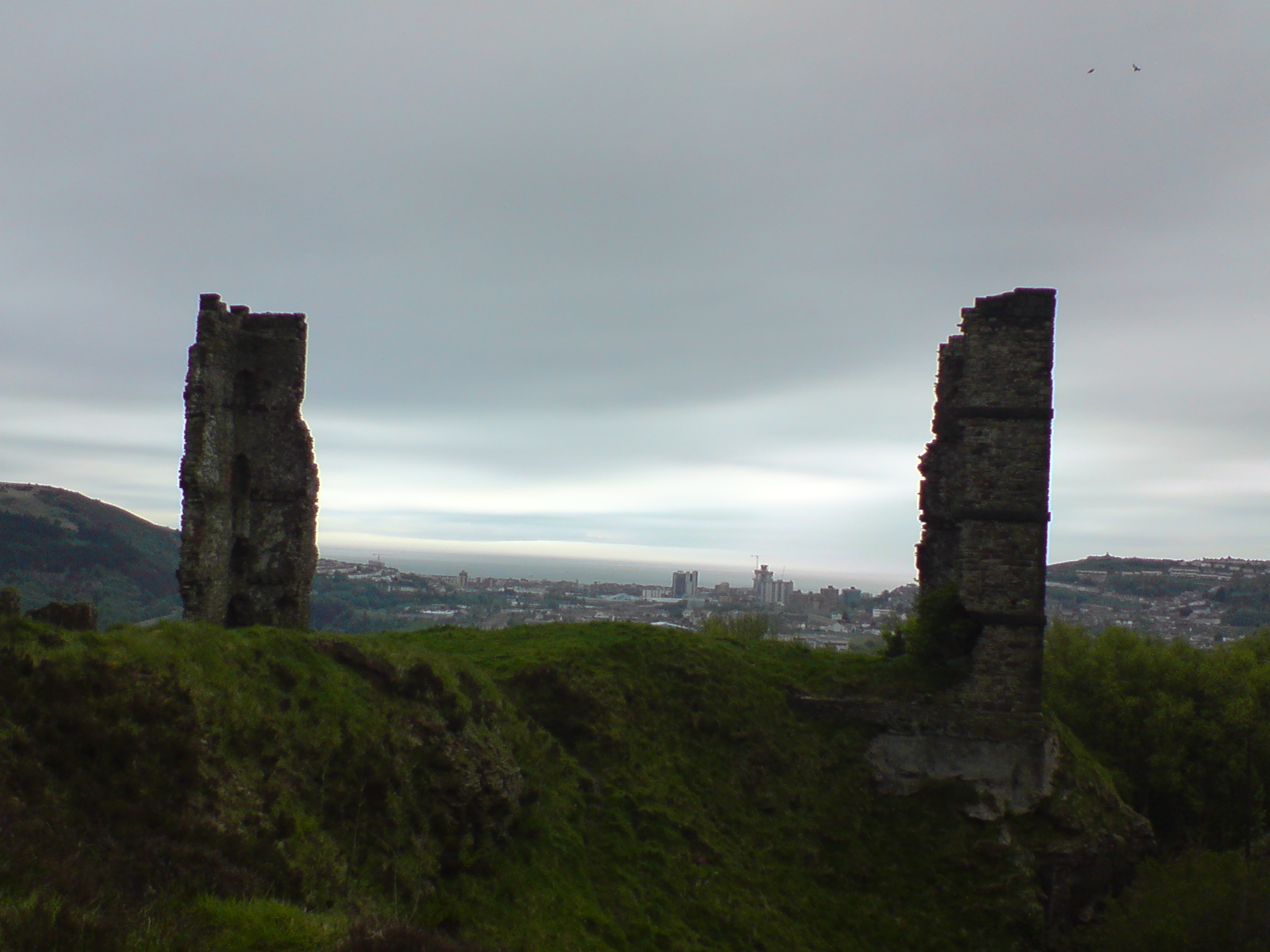 Looking South towards Swansea City Centre